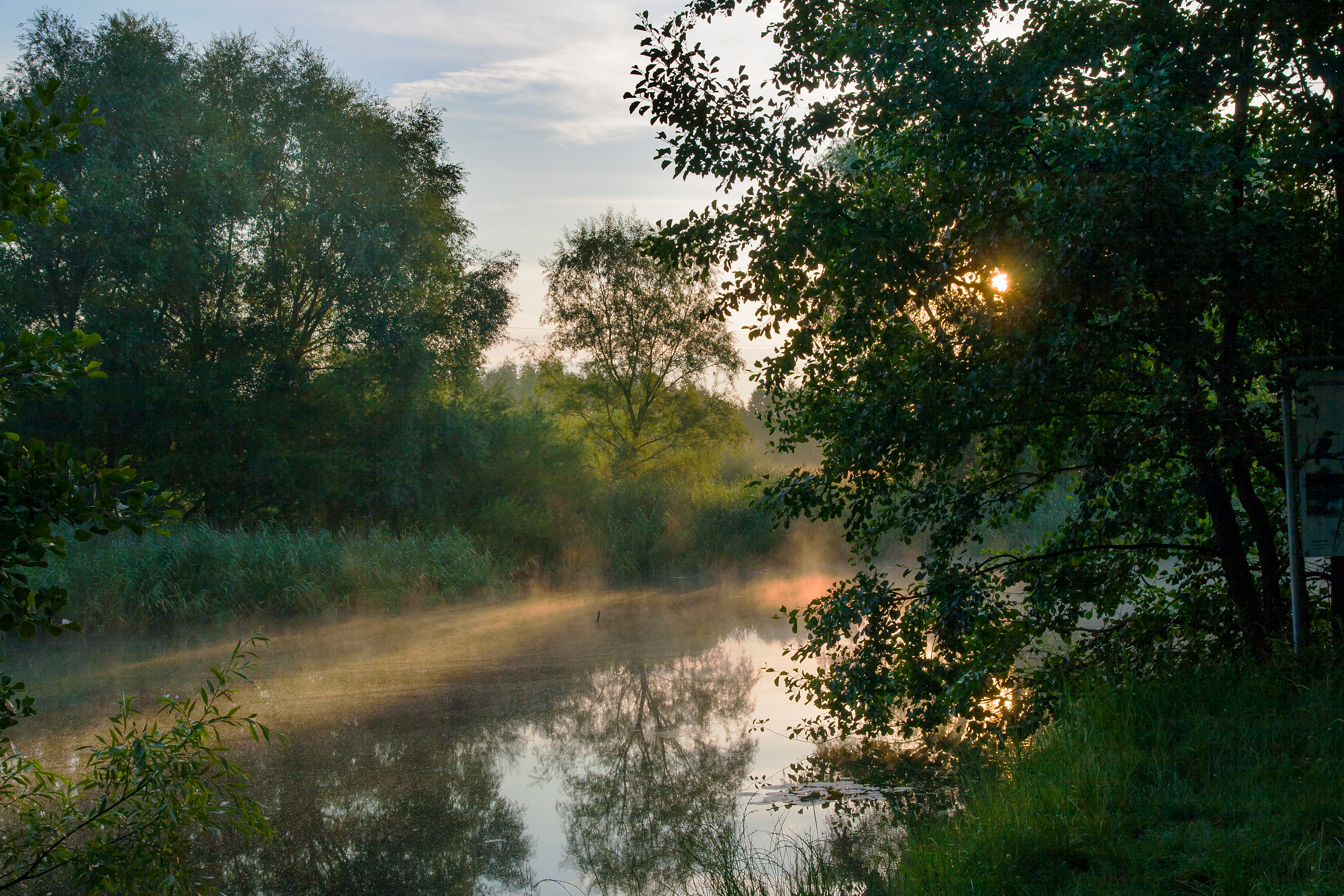 "Malchower Aue" nature reserve in Berlin, Germany